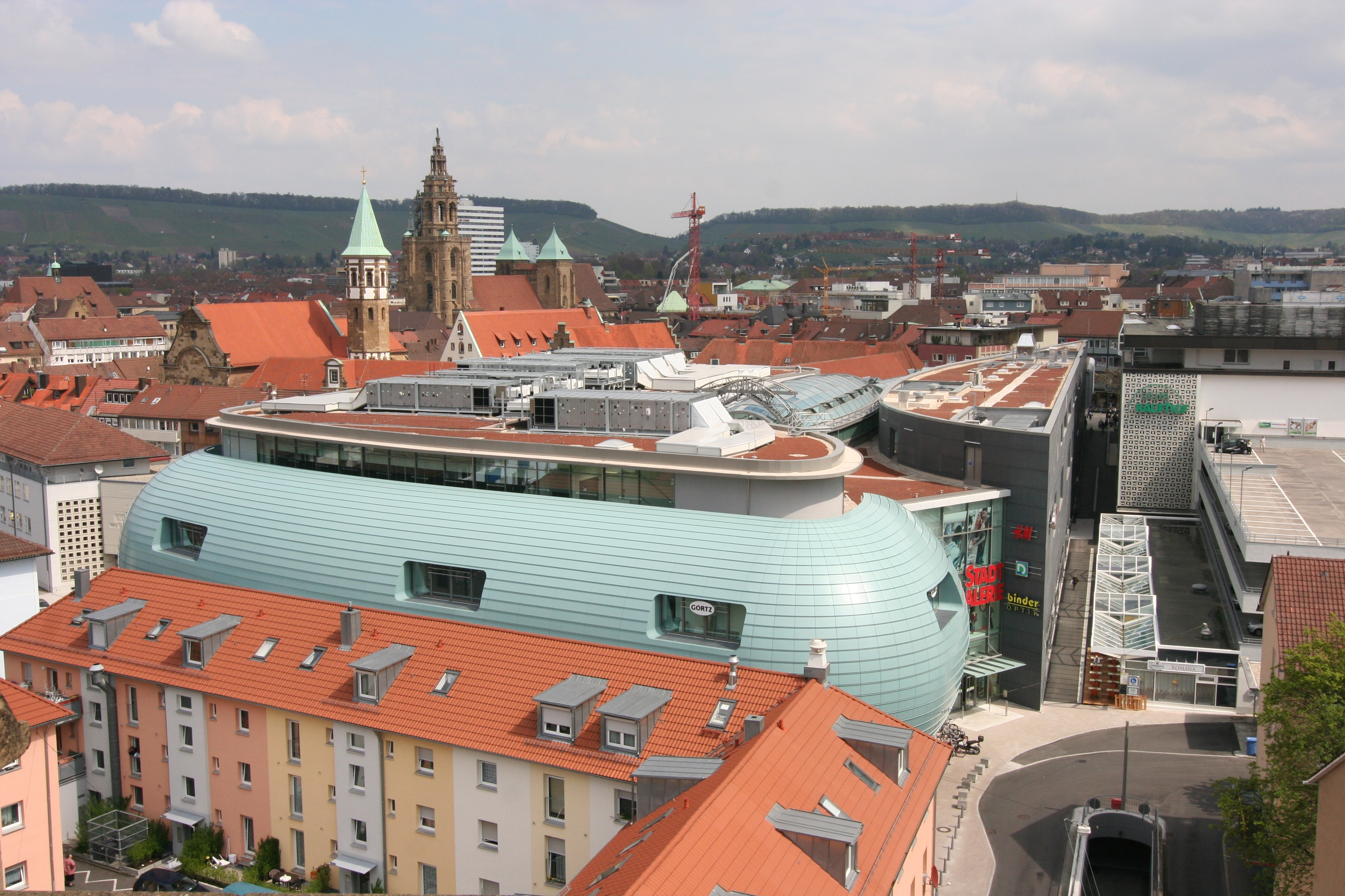 The newly opened shopping mall Stadtgalerie (center) in Heilbronn, photographed from the nearby Götzenturm tower